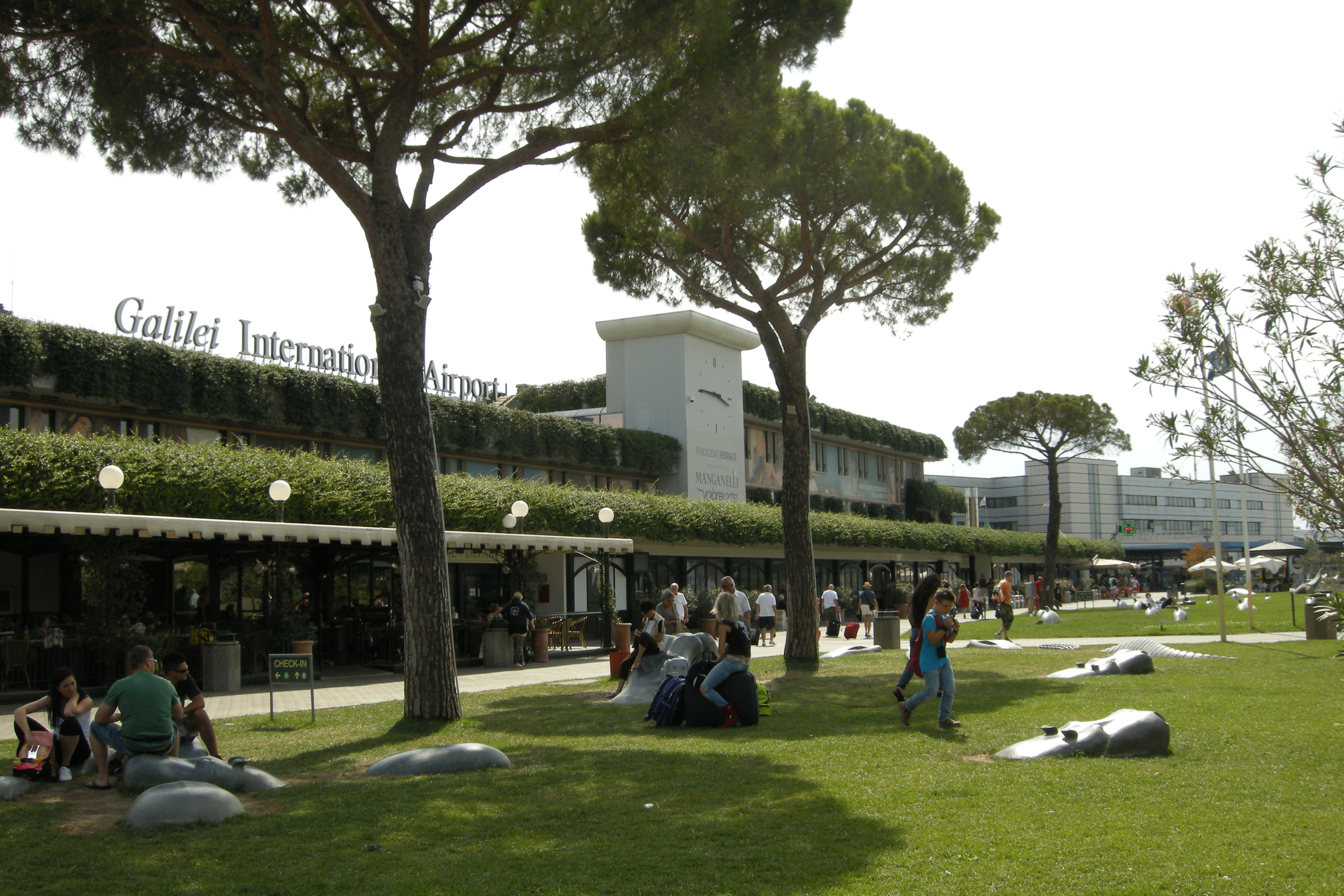 Pisa International Airport Galileo Galilei, Italy